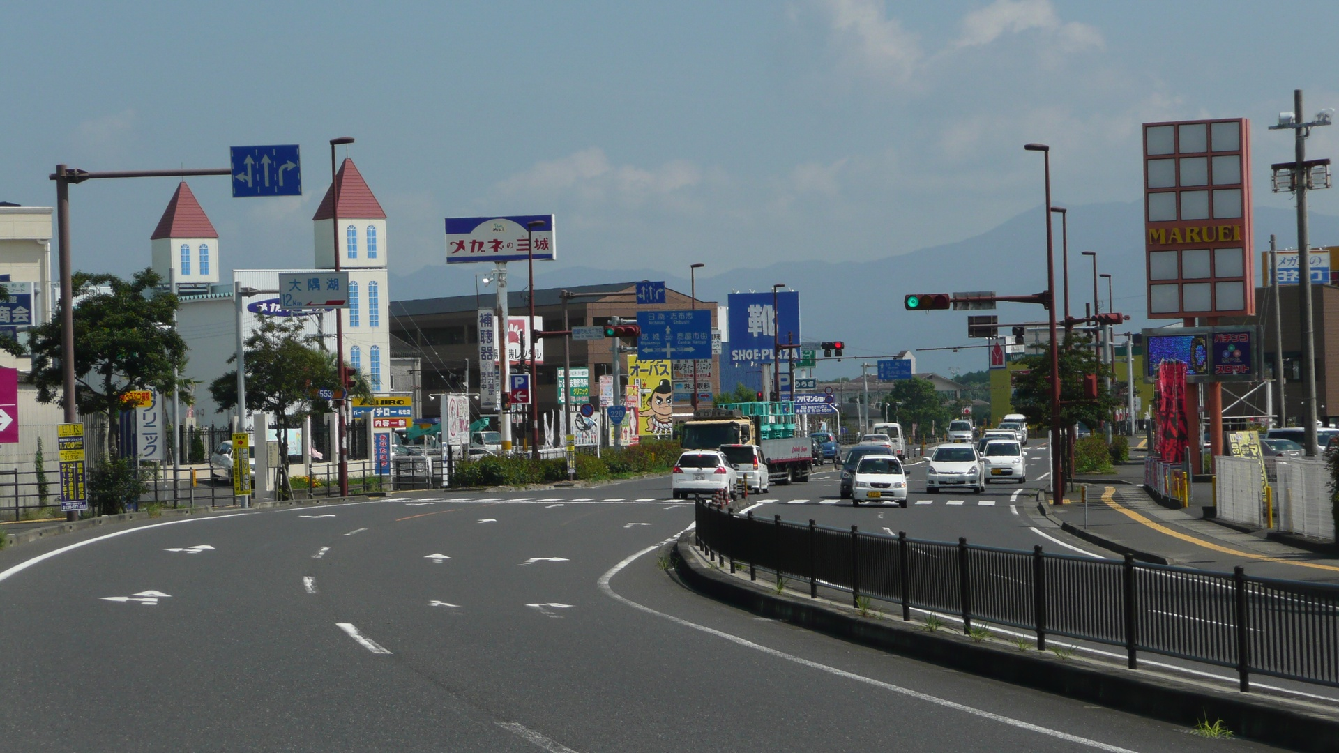 Route 220 Kanoya Bypass (Fudamoto, Kanoya City, Kagoshima, Japan)